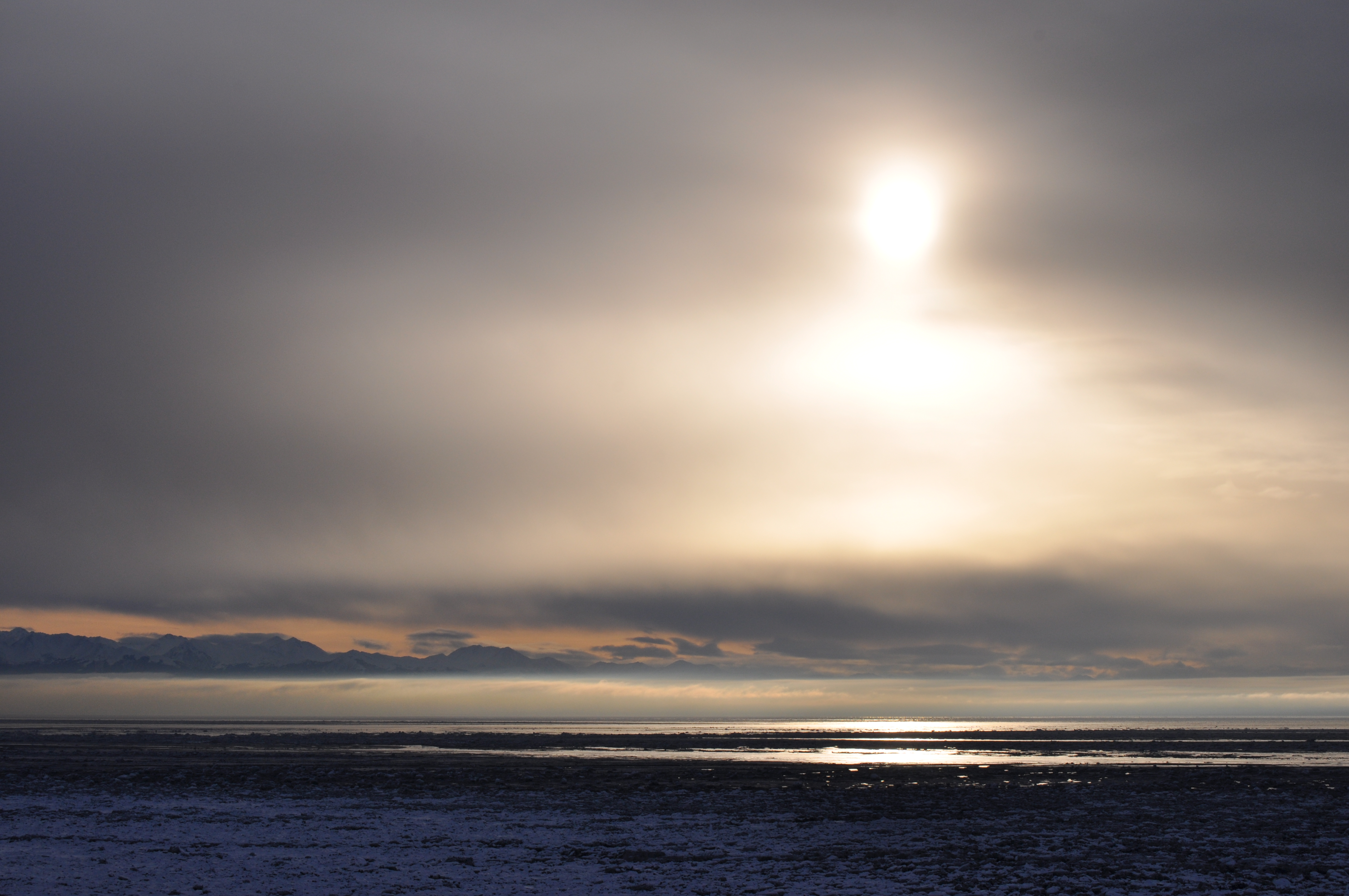 Cook Inlet, near Anchorage, Alaska